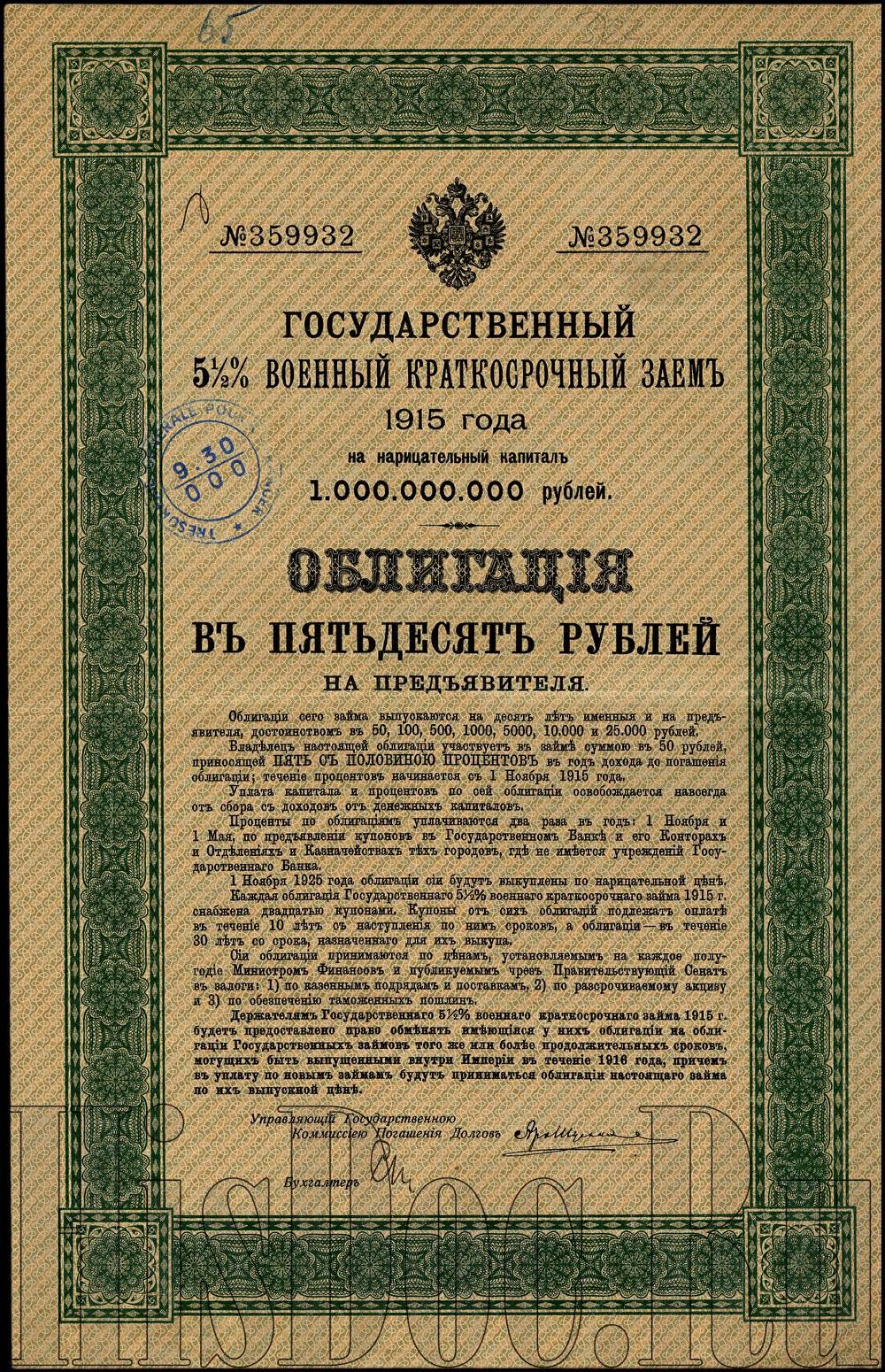 Russian war bond certificate, 1915